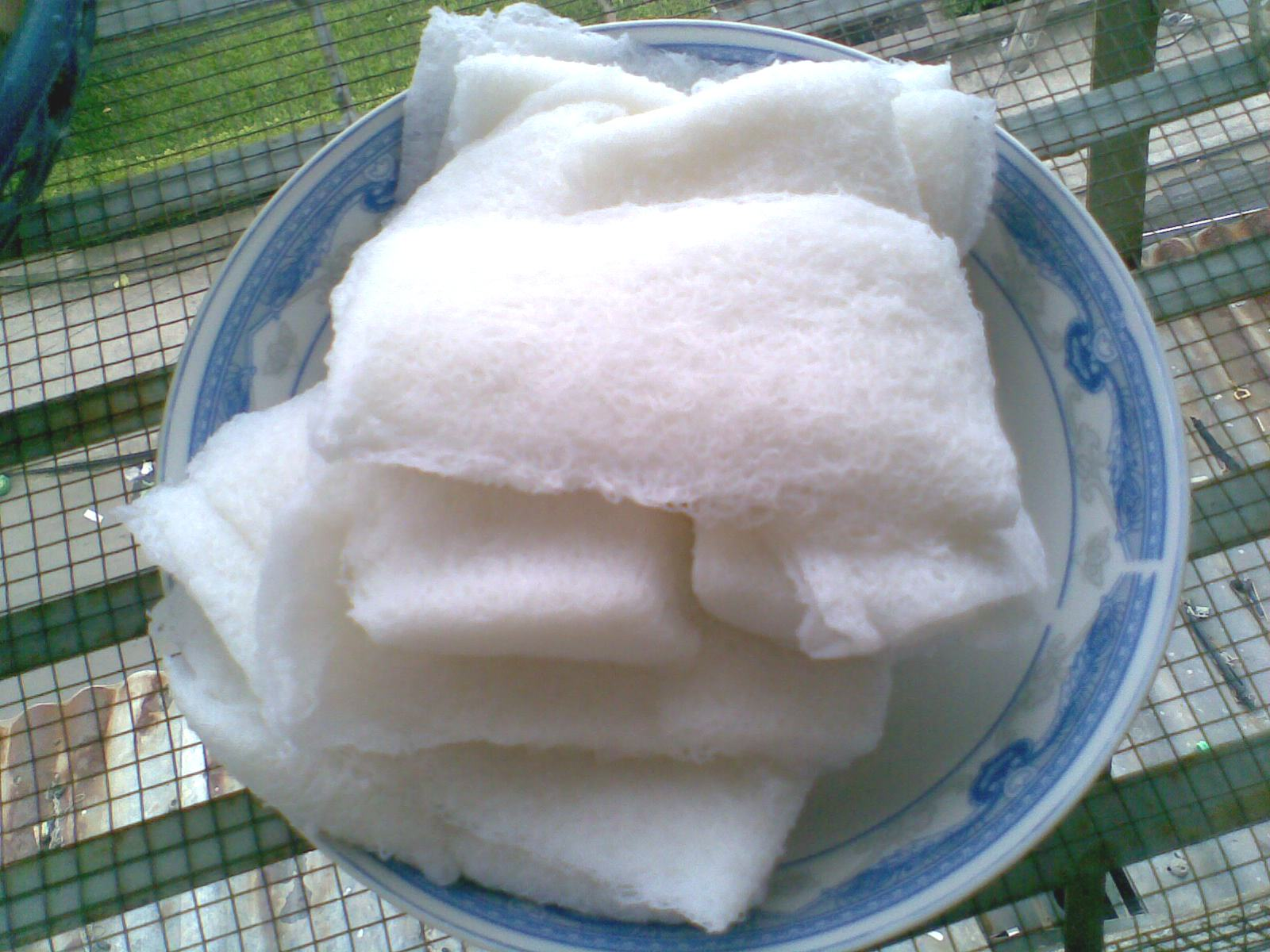 a dish of banh hoi